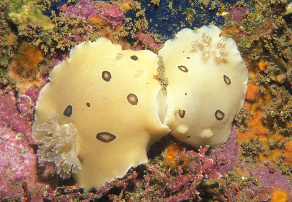 The ringed dorids (Diaulula sandiegensis) shown here are mating. Nudibranchs are simultaneous hermaphordites, possessing both male and female genitalia. When they encounter each other, both transfer sperm to the other mate. (Corynactis californica).